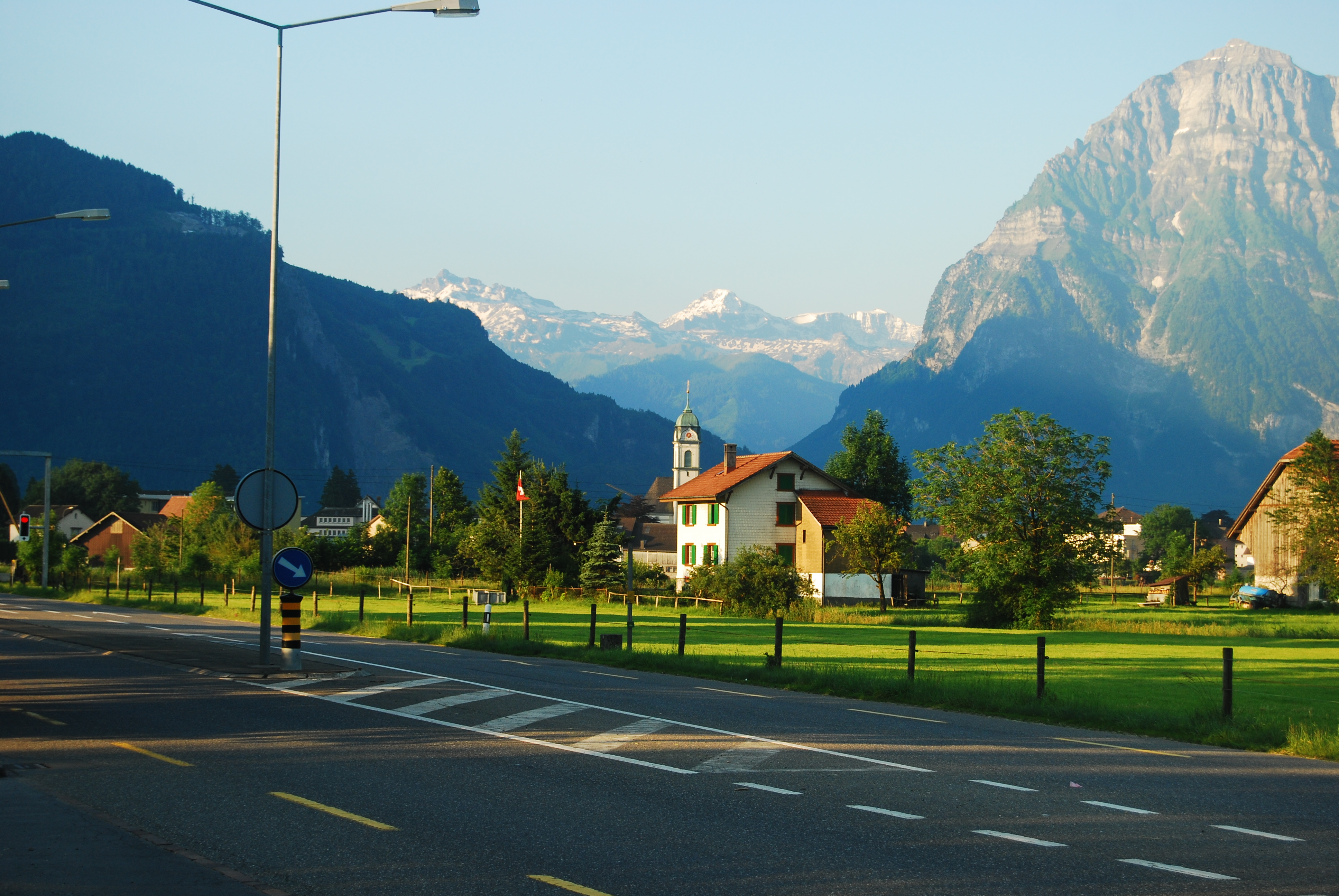 Näfels, canton of Glarus, SwitzerlandEsperanto: Näfels, Kantono Glaruso, Svislando